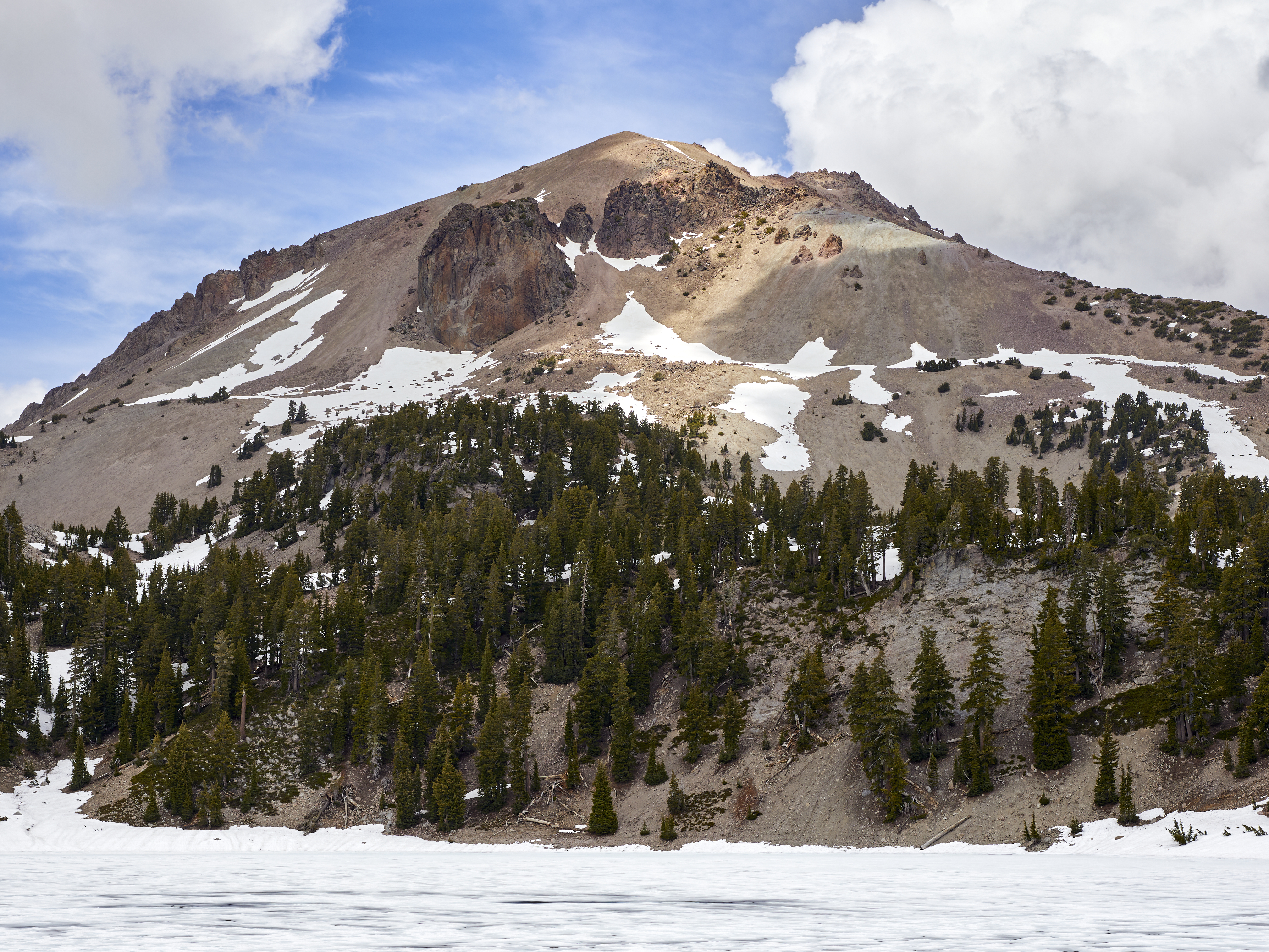 Lassen Peak in Lassen Volcanic National Park as seen from the shore of frozen Lake Helen on June 12, 2020.